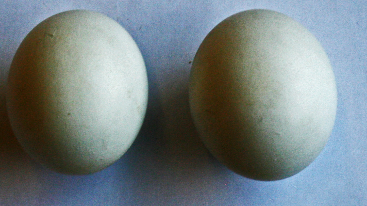 From the collection of V.Vuorisalo And Y. Karra